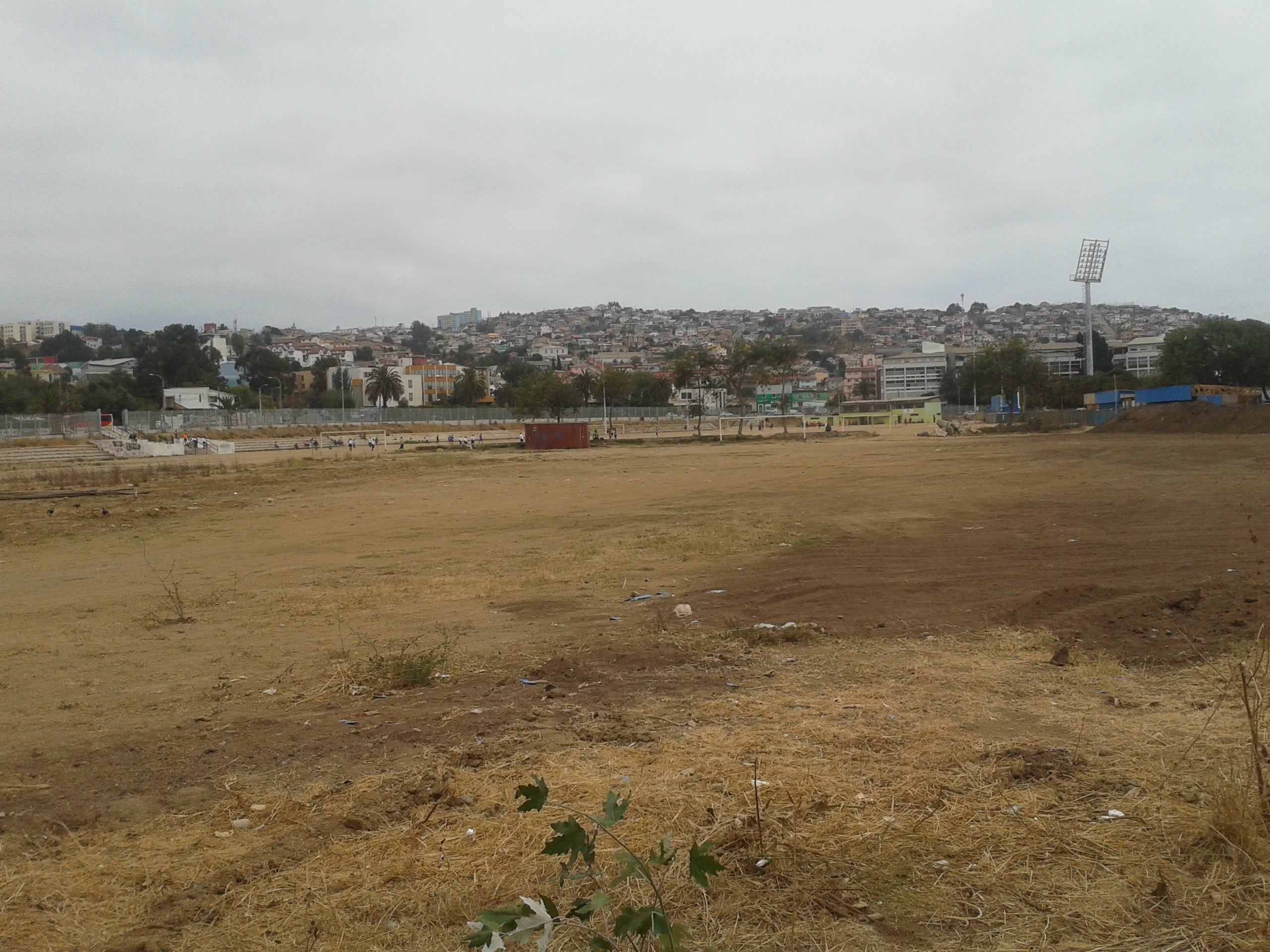 Parque Alejo Barrios de Valparaíso, Chile